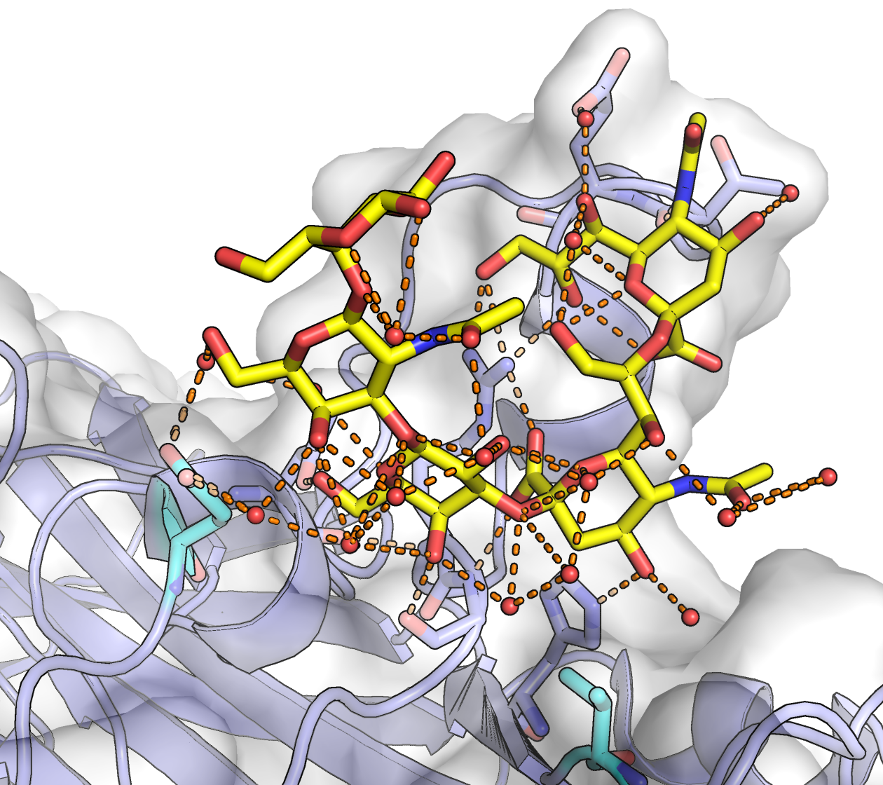 The structure of the murine polyomavirus capsid protein VP1 in complex with the GT1a glycan. GT1a is shown in yellow and the VP1 monomer with a white surface and a blue protein backbone. A complex network of hydrogen bonds, many water-mediated, is shown at the binding surface, with participating protein residues shown as sticks. Mutations of the two residues shown in cyan at the bottom of the figure can significantly affect pathogenicity. Rendered from PDB ID 5CPW. Original paper: Buch MHC, Liaci AM, O’Hara SD, Garcea RL, Neu U, et al. (2015) Structural and Functional Analysis of Murine Polyomavirus Capsid Proteins Establish the Determinants of Ligand Recognition and Pathogenicity. PLoS Pathog 11(10): e1005104.